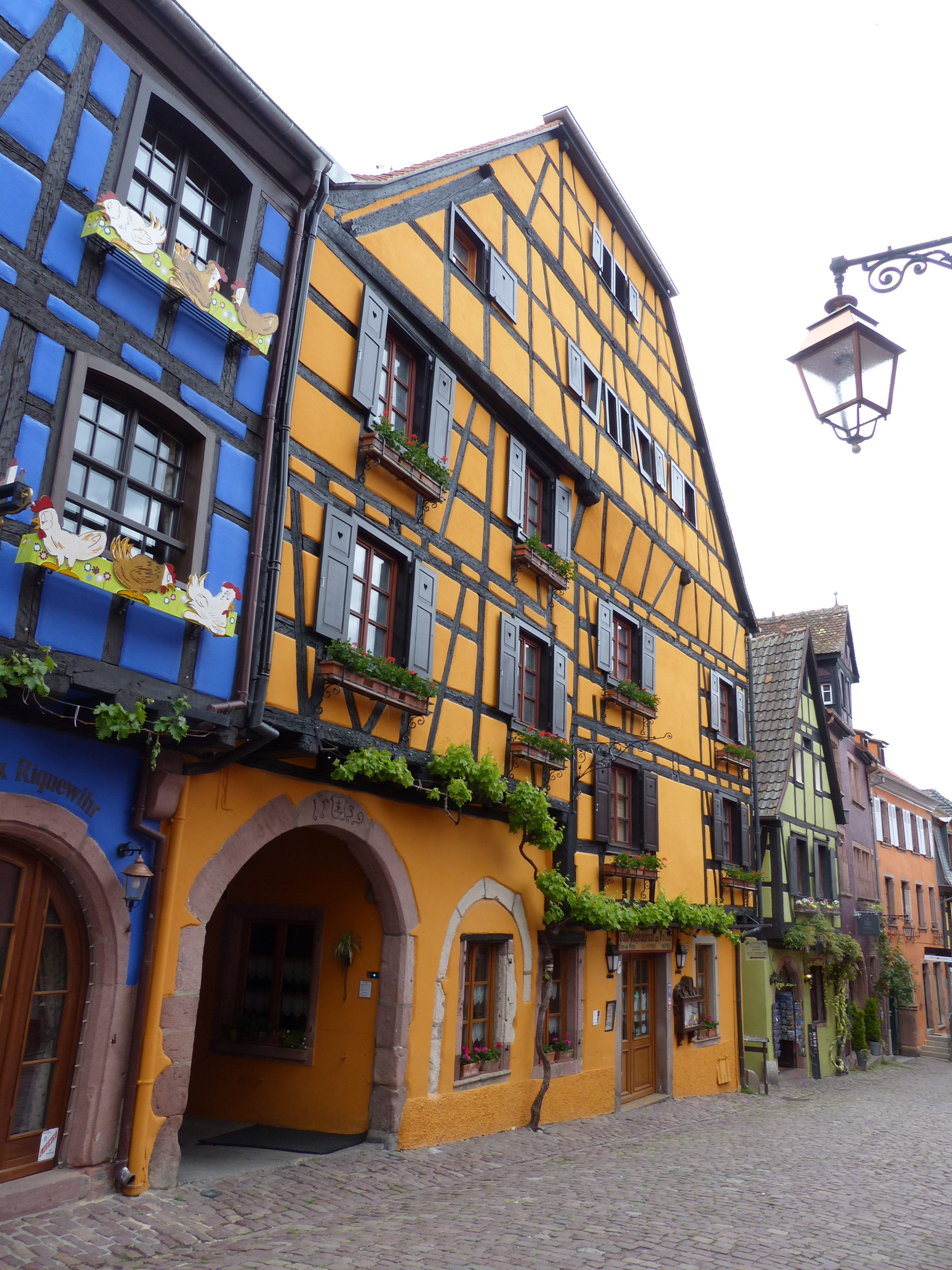 Riquewir, France. Taken on the 18th of May, 2016.